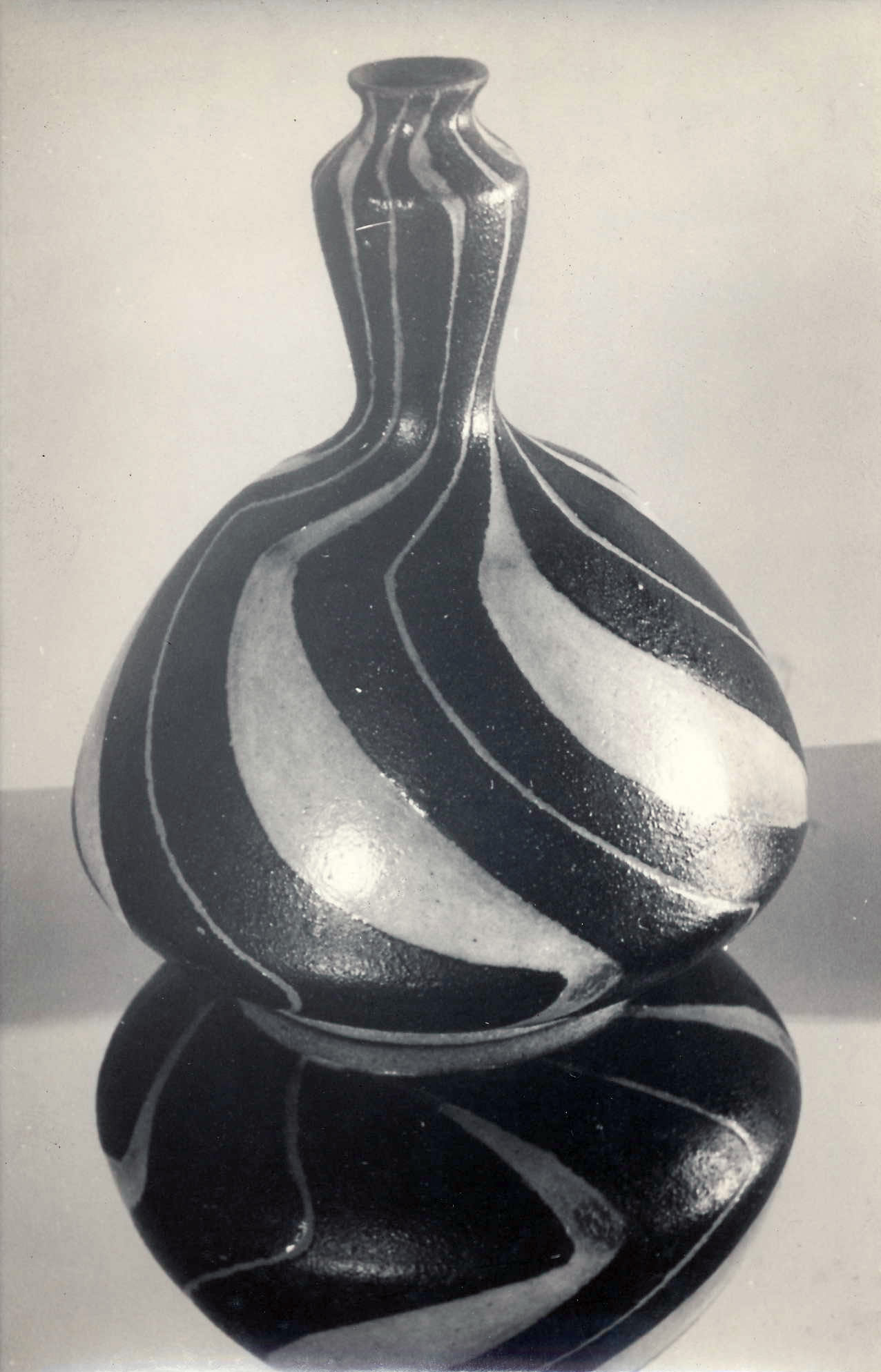 Gertrud Schwarze: vase in black and white, about 1955